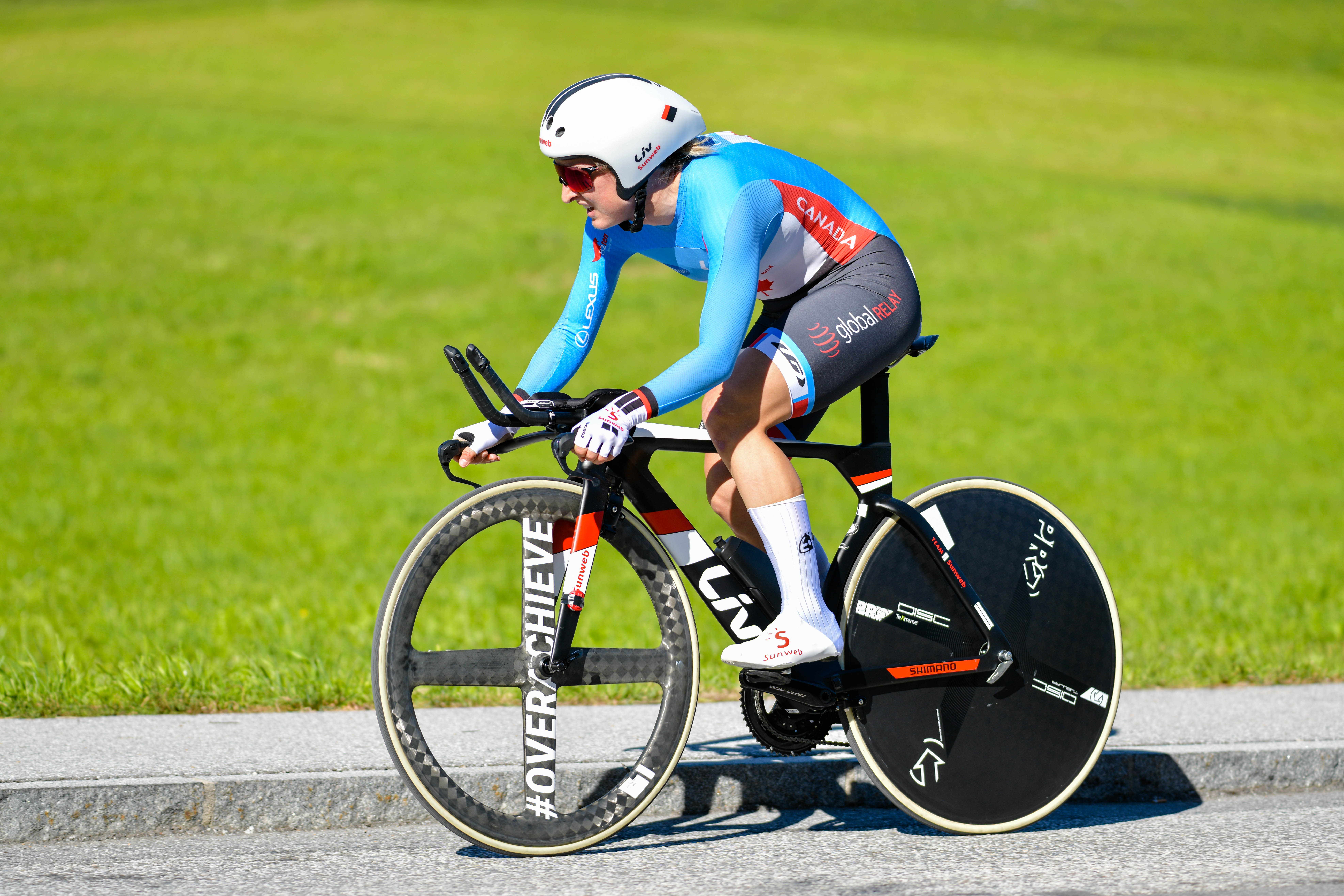 2018 UCI Road World Championships Innsbruck/Tirol Women Elite Individual Time Trial. Picture shows: Leah Kirchmann of Canada